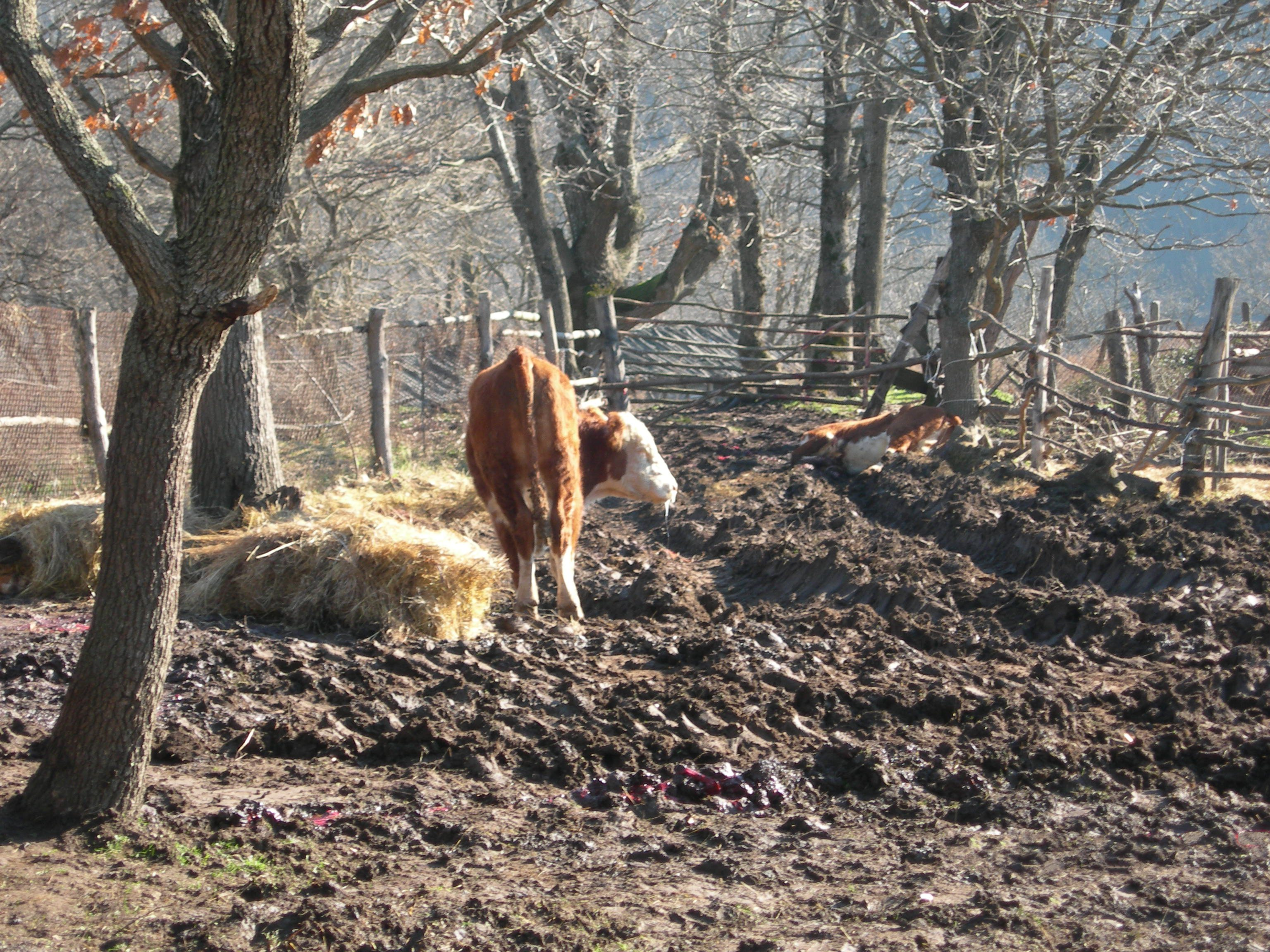 FMD, Cow salivation